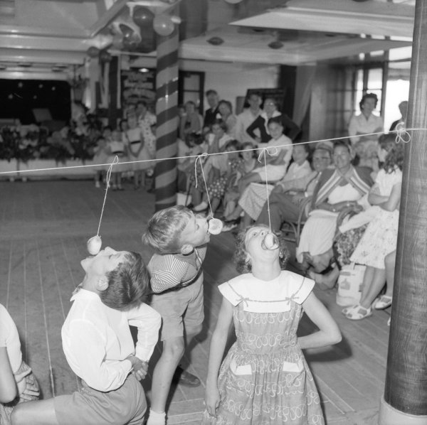 Original caption: "Three children in the ‚Apple Eating contest‘, possibly in the ballroom of the Chusan"Reproduction ID:: P85787Maker: Marine Photo ServiceMaterials:Cellulose acetate negativeThis photograph is featured in Waterline, a new photographic exhibition revealing the joys and trials of the heyday of cruising. It's on at the National Maritime Museum until October 2011